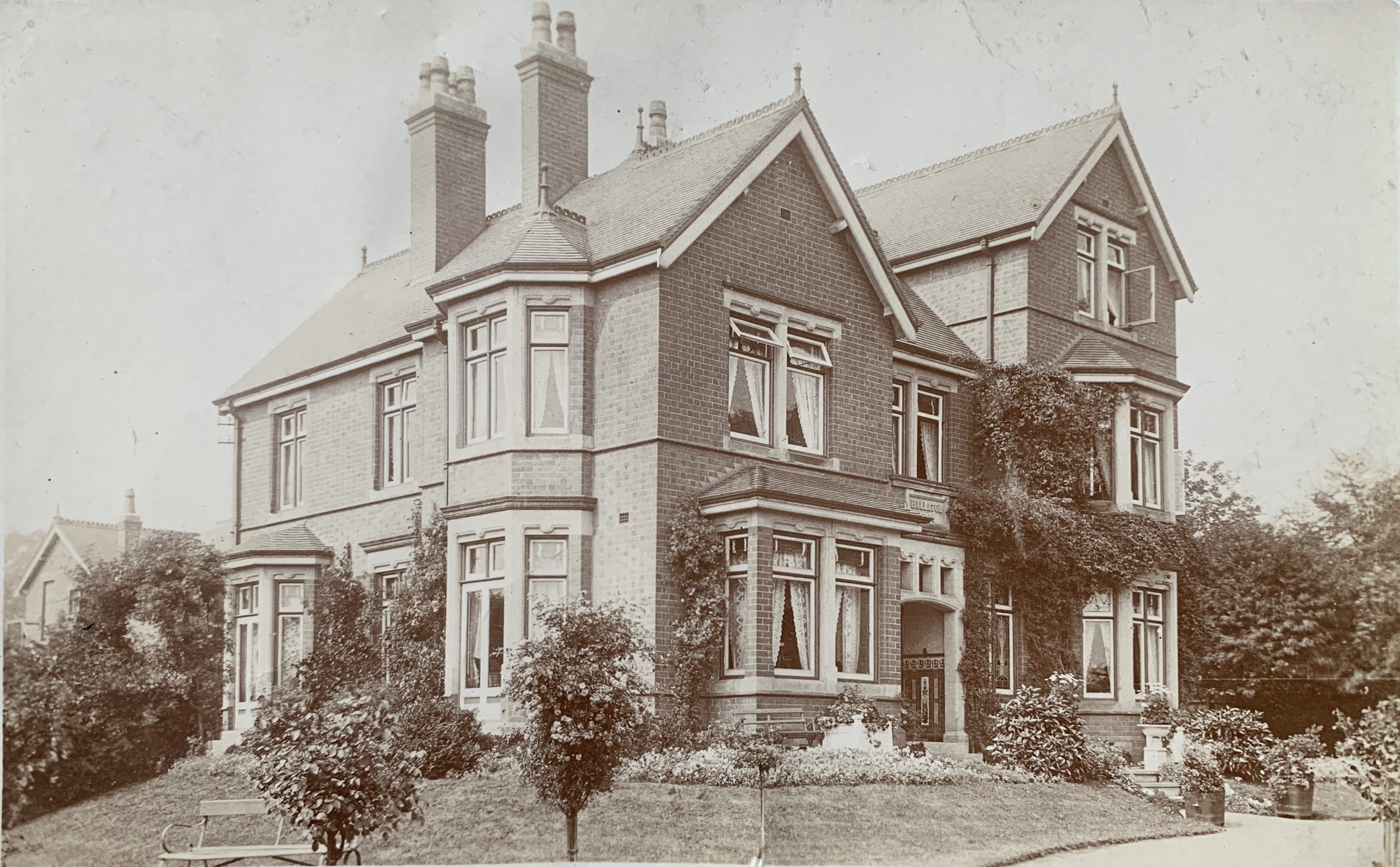 Built for William Lowe ca. 1909. Demolished ca. 1936-37